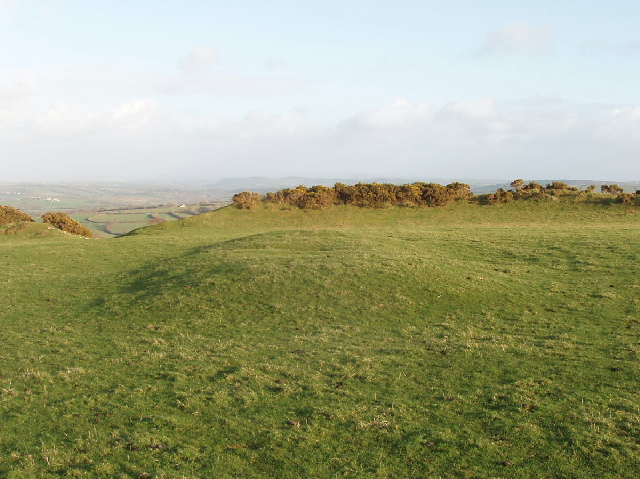 The Giant's Grave, Warbstow Bury The information board says that local tradition believes this mound in the centre of the fort is the burial site of the Warbstow Giant who was slain by the giant of Condolden Beacon, who lived near Tintagel.